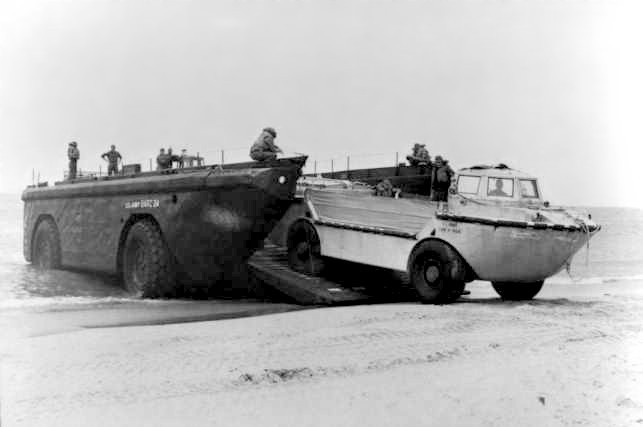 A LARC-LX (BARC) amphibous vehicle unloading a much smaller LARC-V.